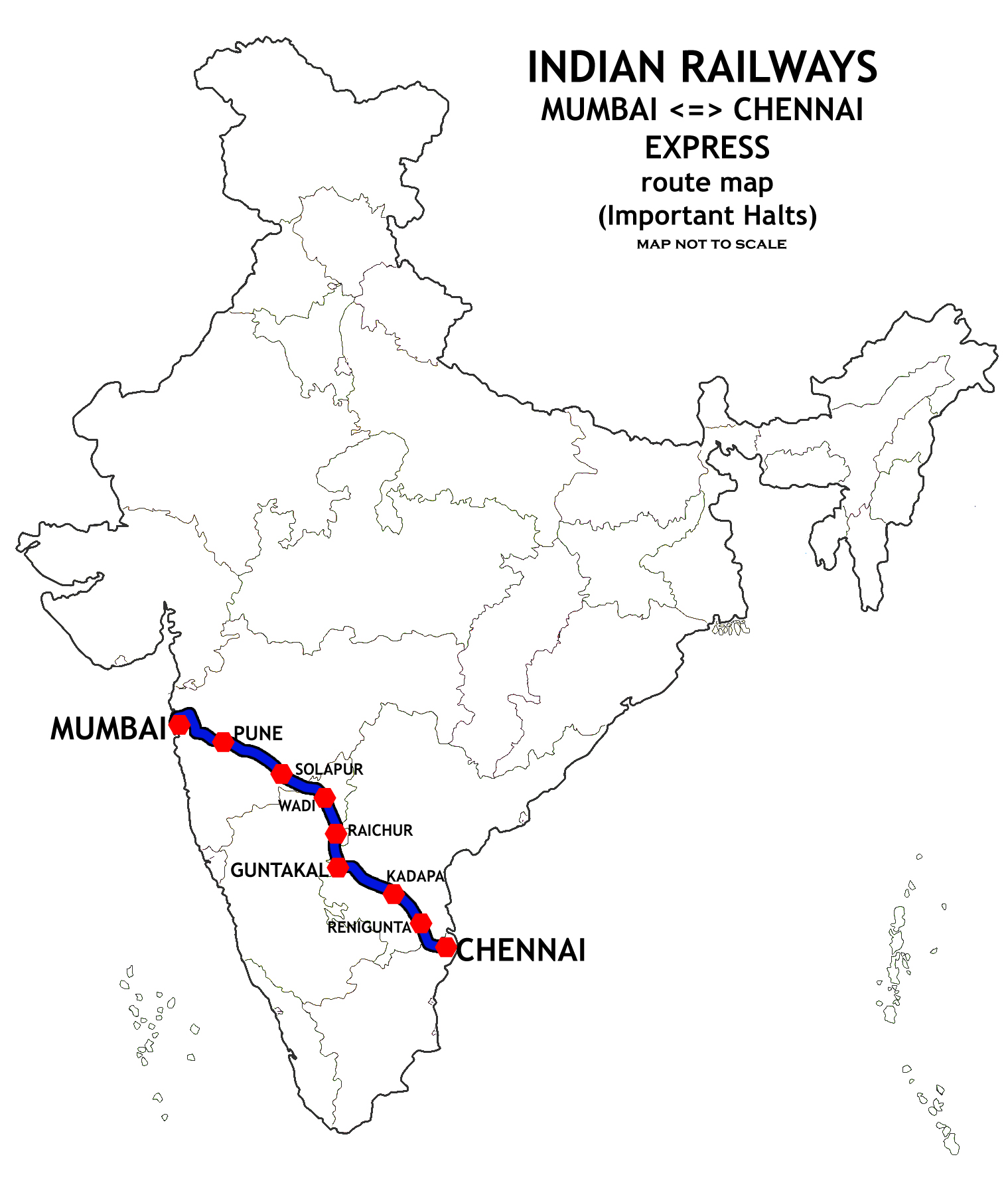 (Mumbai-Chennai) Express Trains Route map